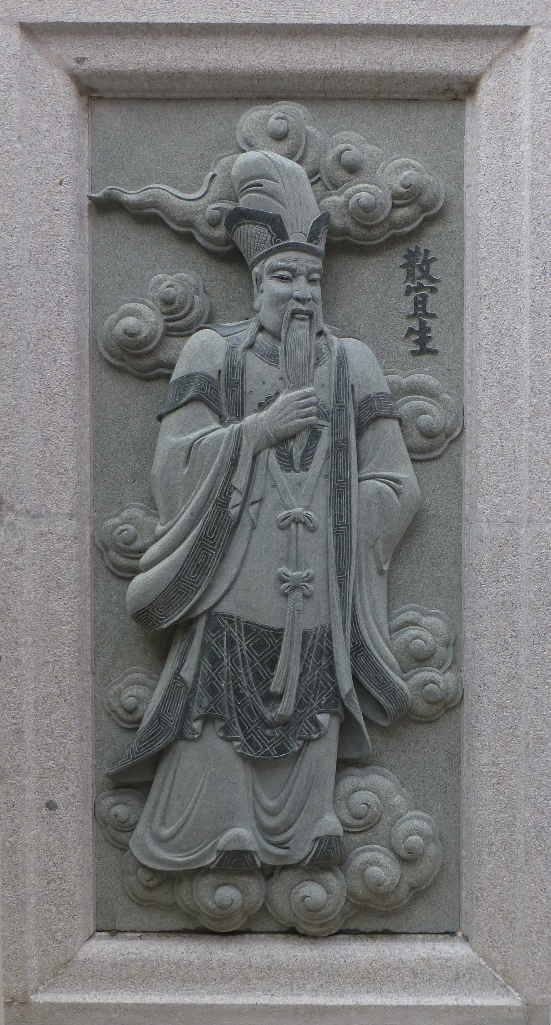 001 San Yisheng, Investiture of the Gods at Ping Sien Si, Pasir Panjang, Perak, Malaysia Photograph from the Ping Sien Si Temple in Perak, Malaysia taken by Anandajoti.